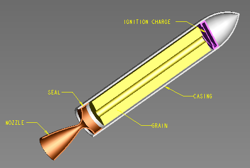 Solid Rocket Motor